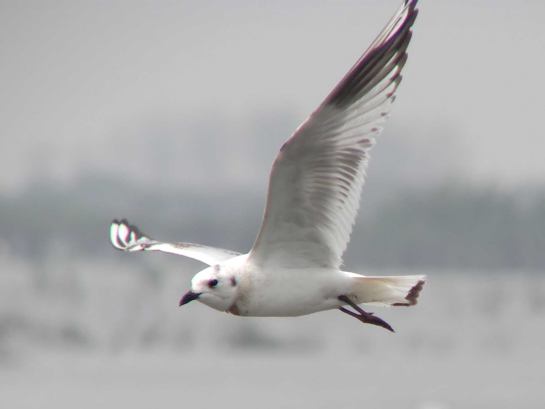 Saunders's Gull Chroicocephalus saundersi, first-winter, at the Mai Po wetlands, Hong Kong.